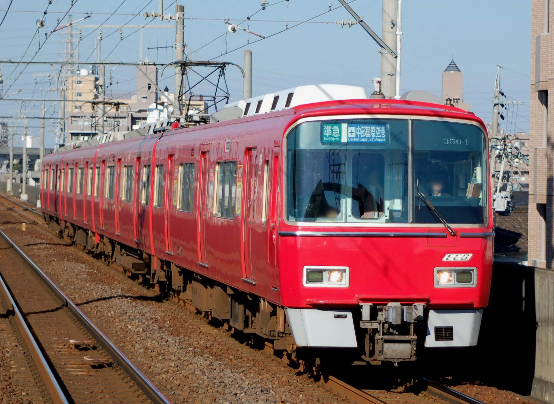 Nagoya Railway type 3500 electric car, semi express service. 名古屋鉄道3500系による準急列車。中小田井にて。